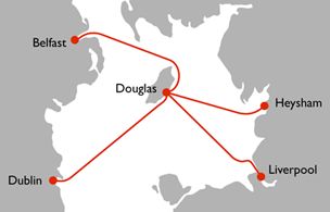 Map of the Irish Sea showing routes operated by the Isle of Man Steam Packet Company